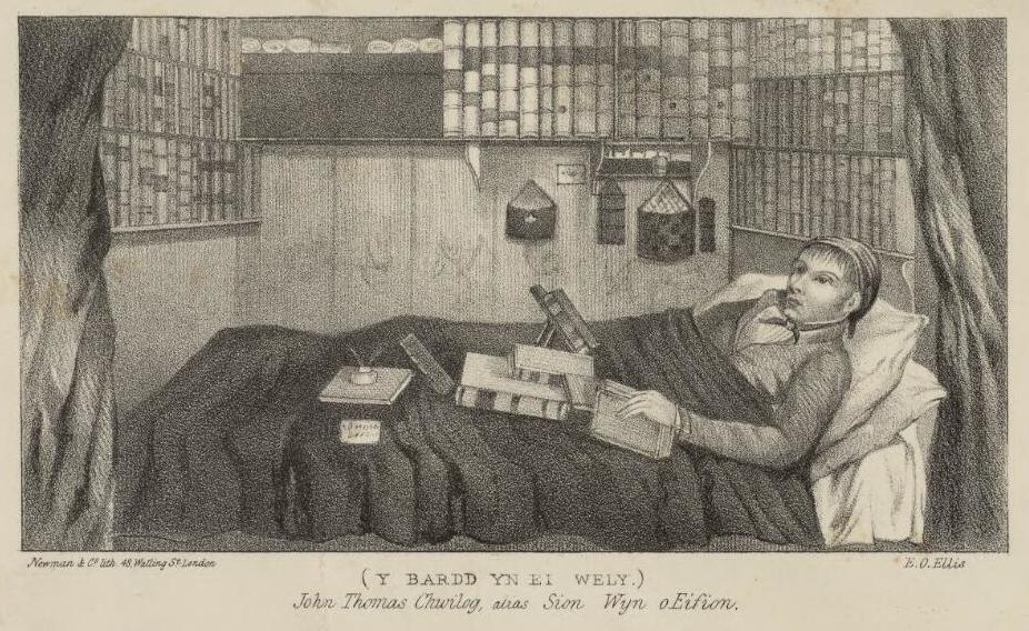 A portrait from the Welsh Portrait Collection at the National Library of Wales. Depicted person: John Thomas – Welsh poet and hymn writer